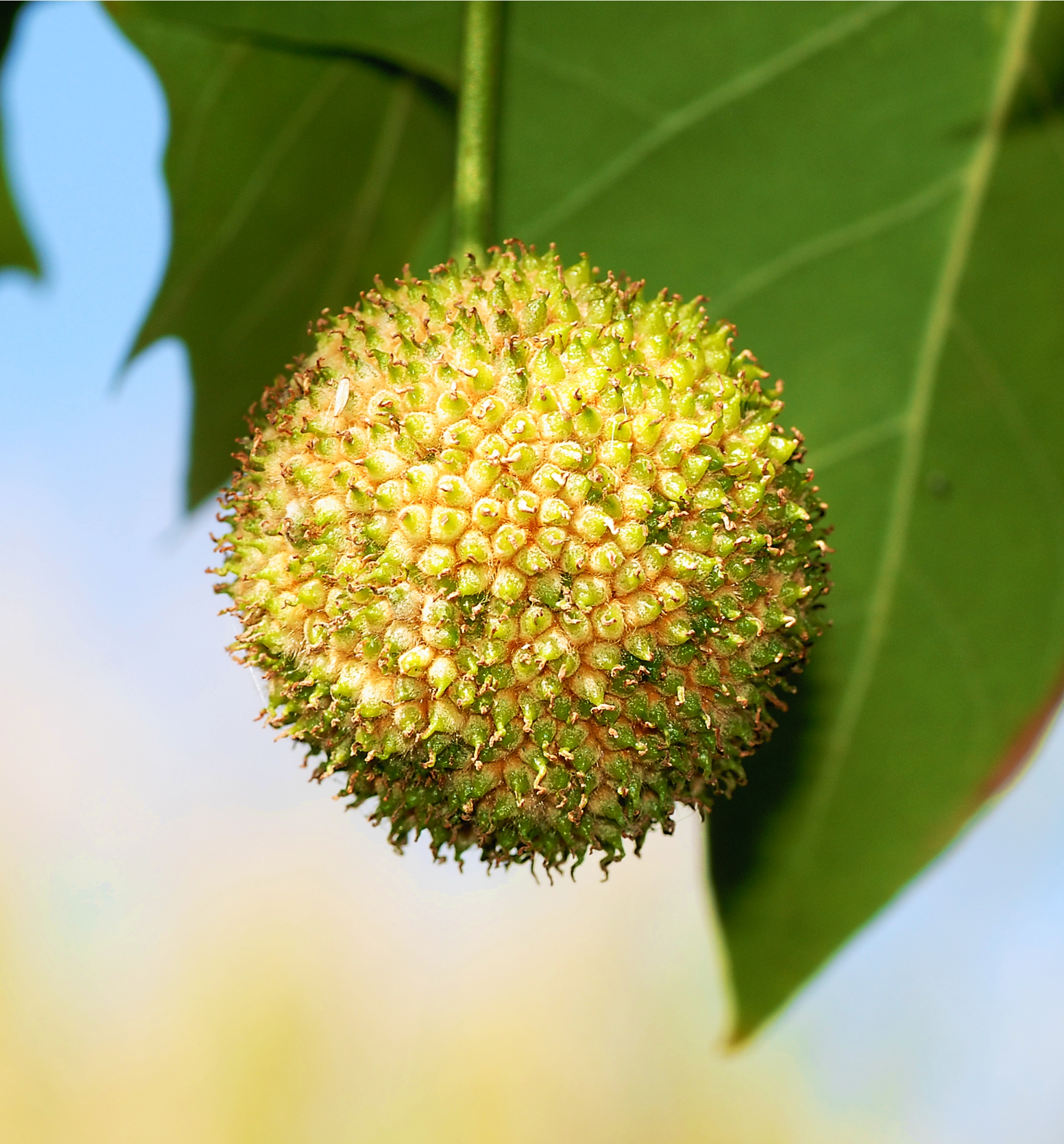 Fruit of a Platanus x hispanica